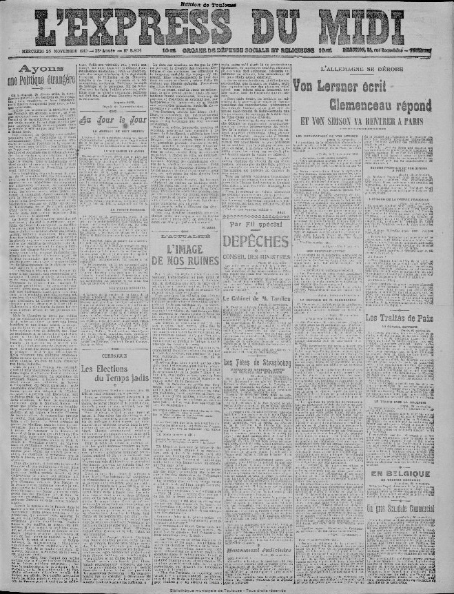 Front page of the French newspaper L'Express du Midi from 26 November 1919. The paper was based in Toulouse and published from 1891 to 1938.